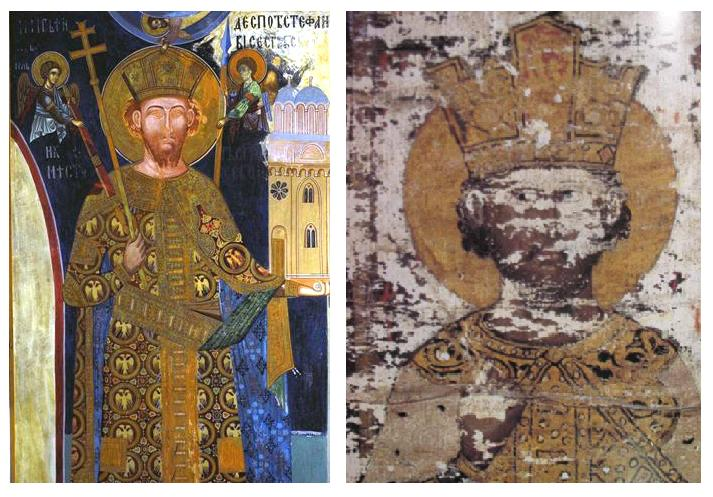 Stefan Lazarević and Djuradj Branković